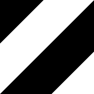 Colors of polish music band Republika